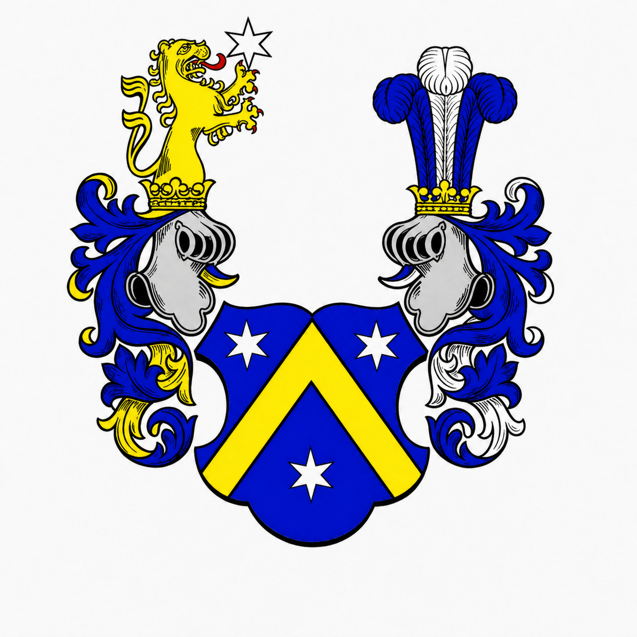 v. Renauld, coat of arms